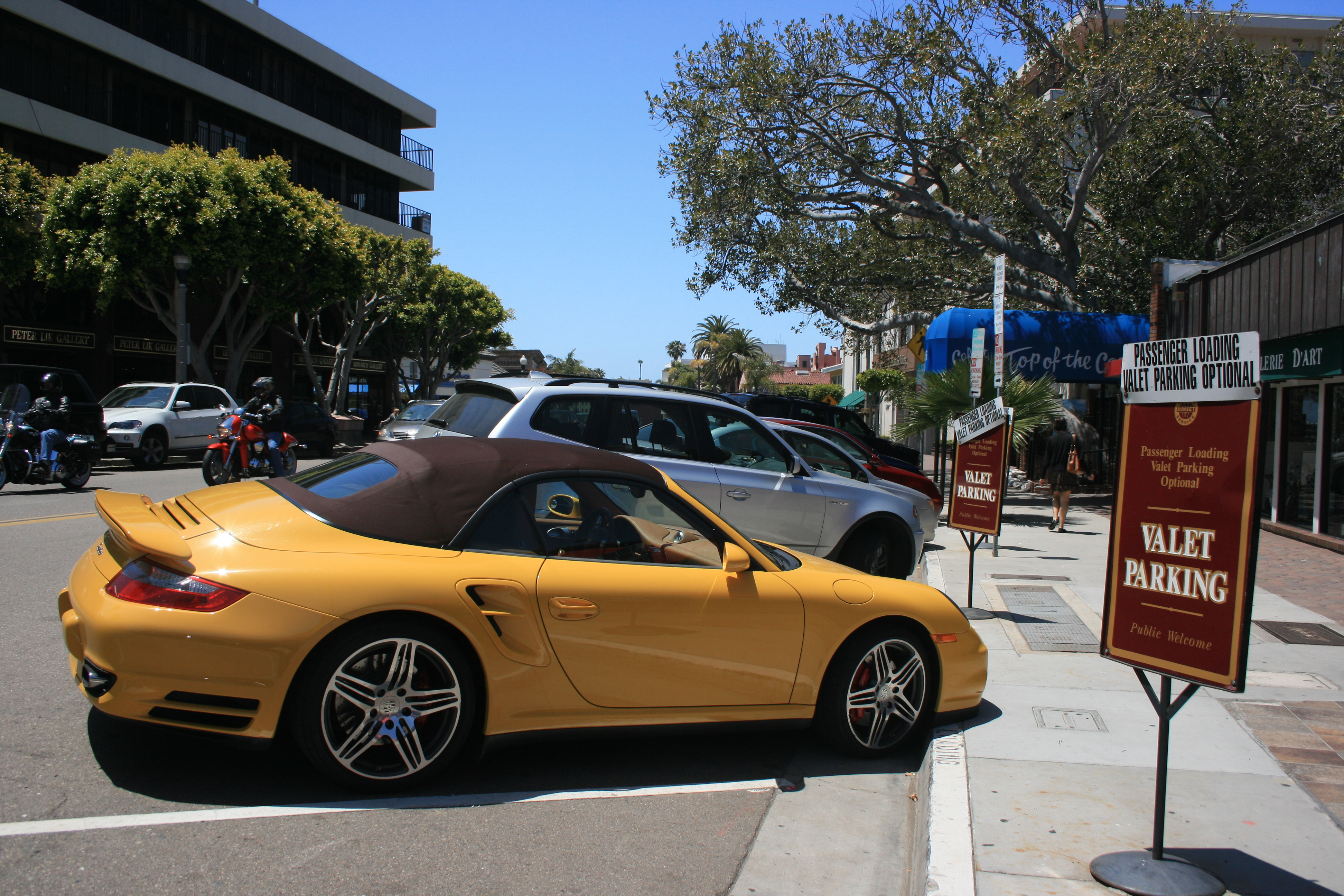 Porsche 911 Turbo Cabriolet in La Jolla